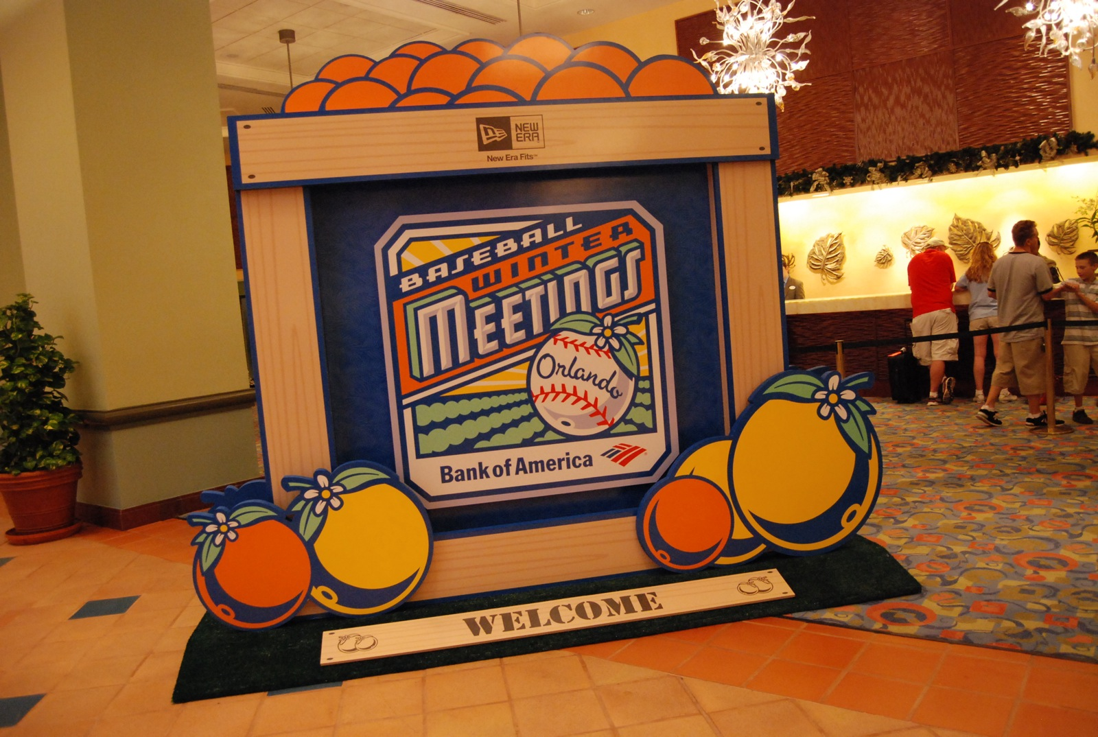 Saw this sign at the Dolphin Hotel at Walt Disney World.